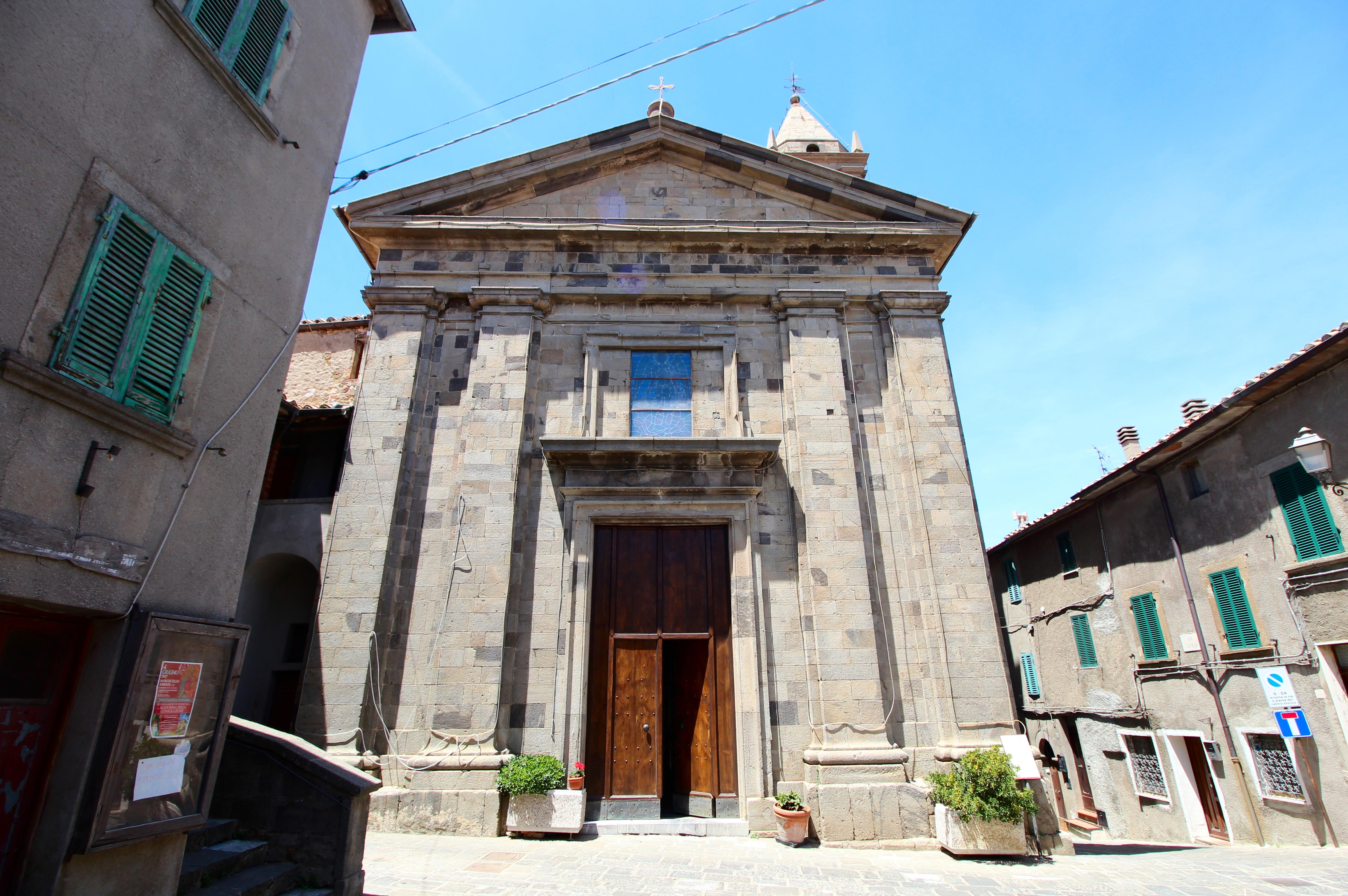 Church San Michele Arcangelo, Center of Monticello Amiata, hamlet of Cinigiano, Province of Grosseto, Tuscany, Italy